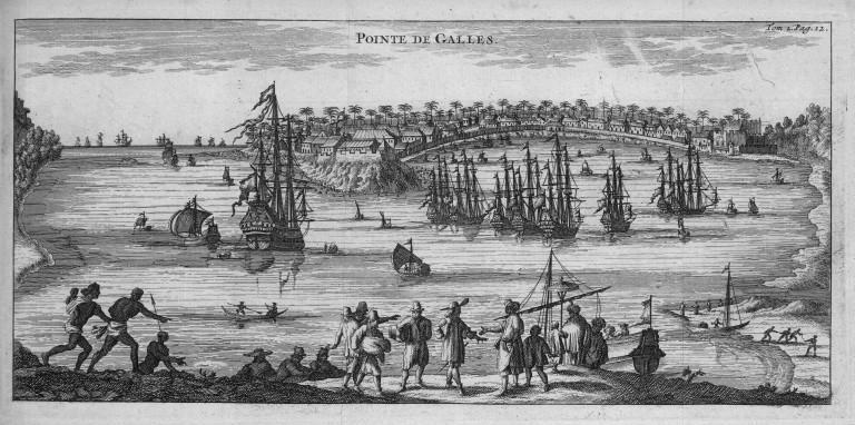 View of the port of Galle in Ceylon in 1754. Image from the "Travelogues of René Augustin Constantin Renneville. Published in Amsterdam.